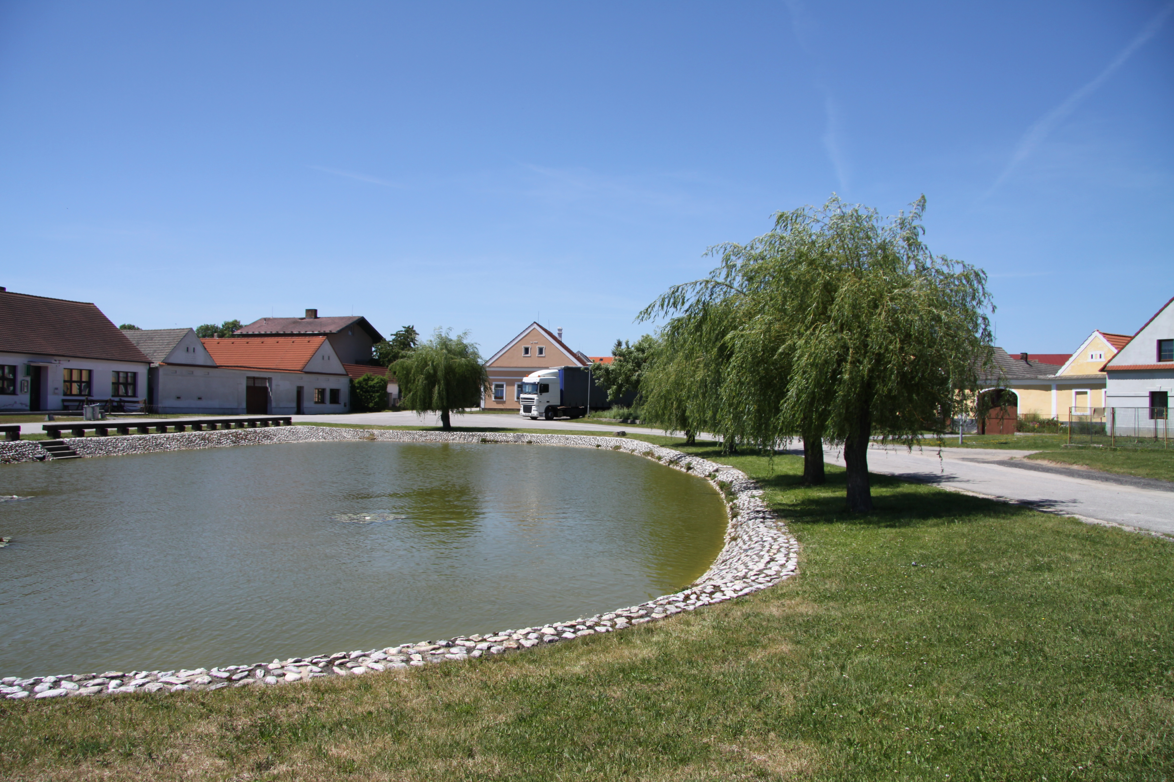 Dynín village in České Budějovice District, Czech Republic - Google Maps - Google Earth